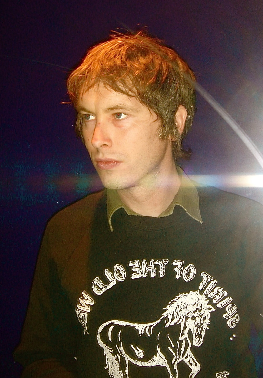 Kalle Gustafsson Jerneholm